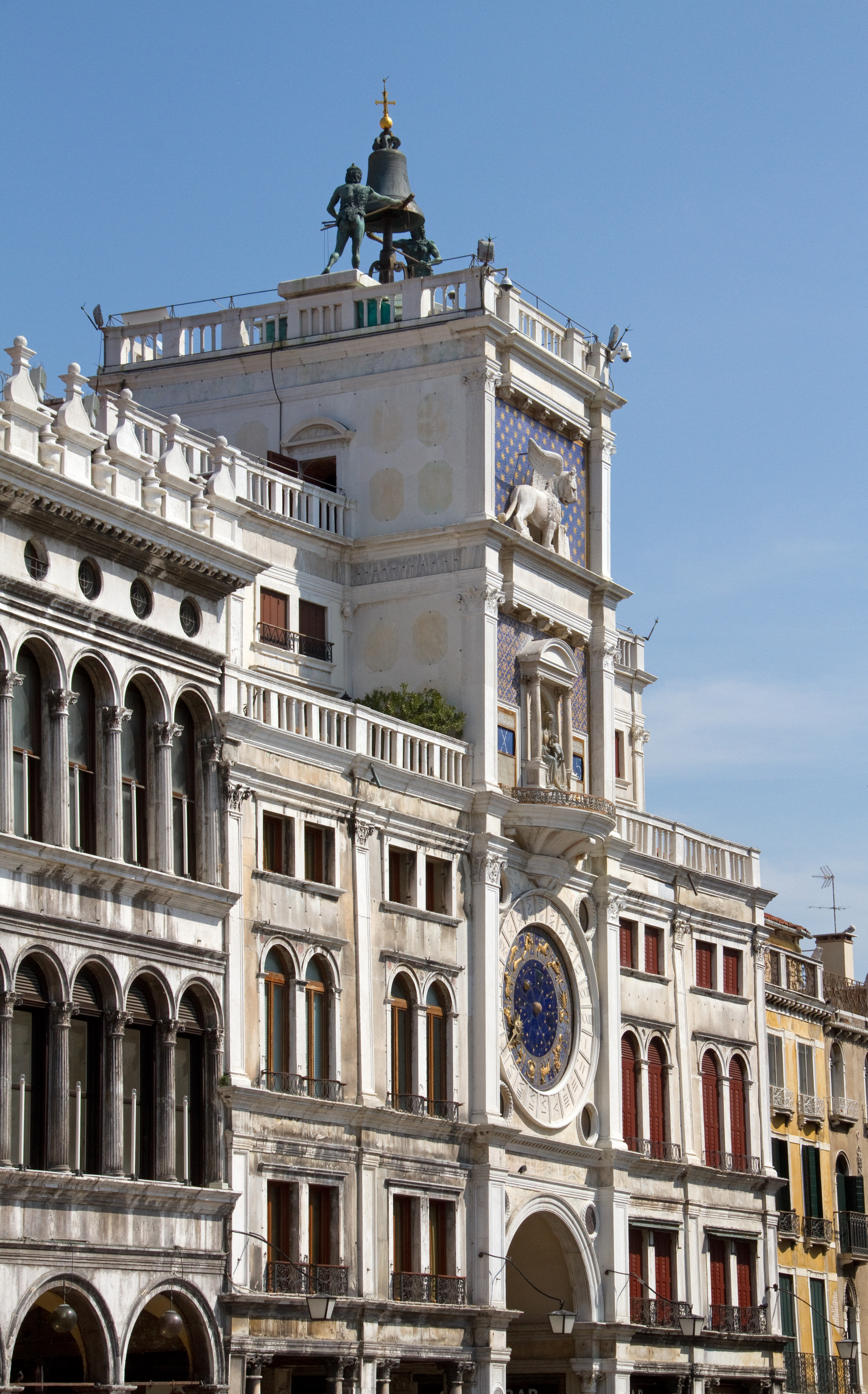 Clock Tower St Mark's Square 1